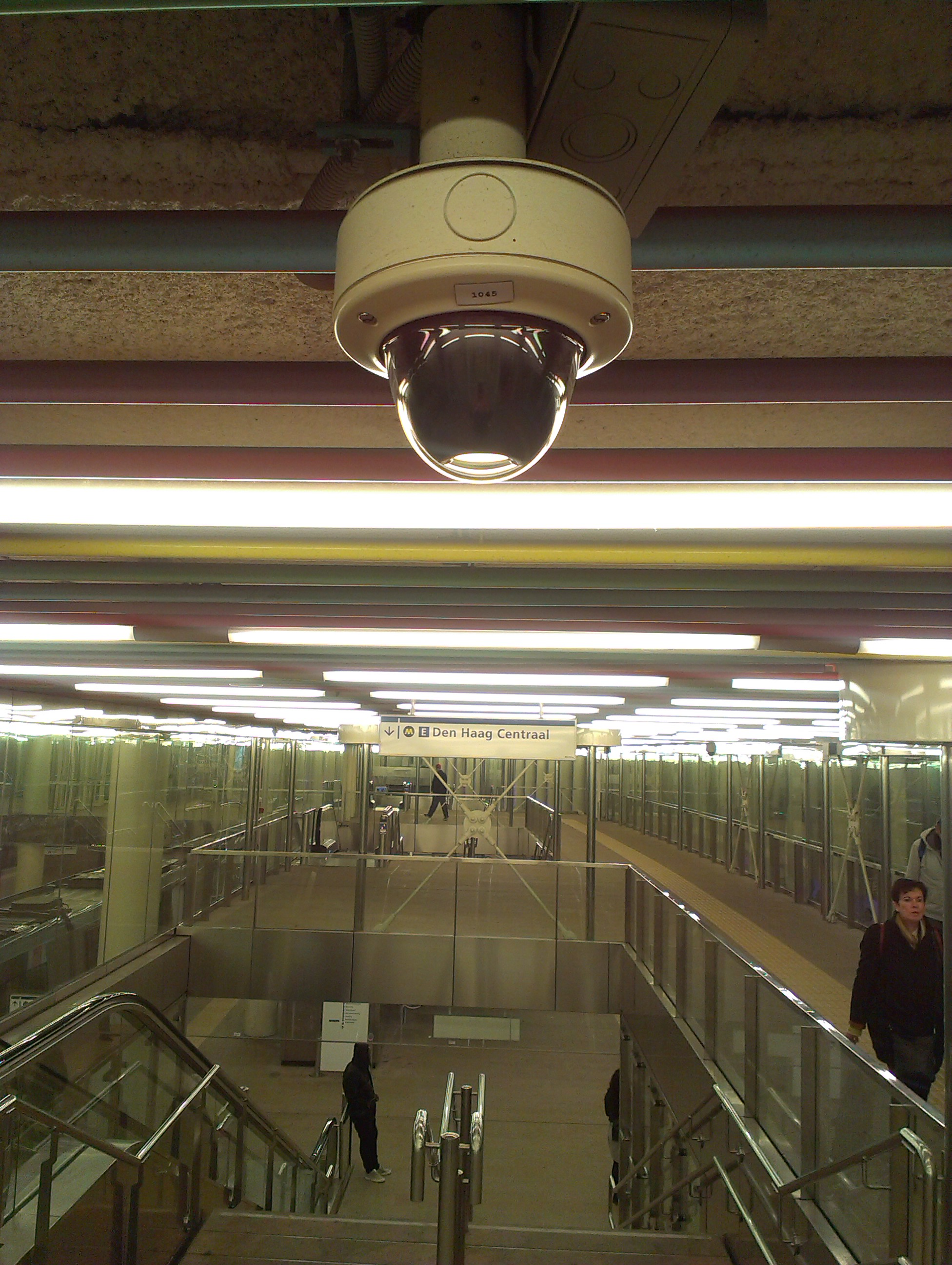 PTZ camera in dome housing, subway station, Central Station Rotterdam The Netherlands.